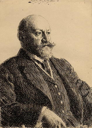 Etching of British banker Sir Ernest Cassel (1852-1921)